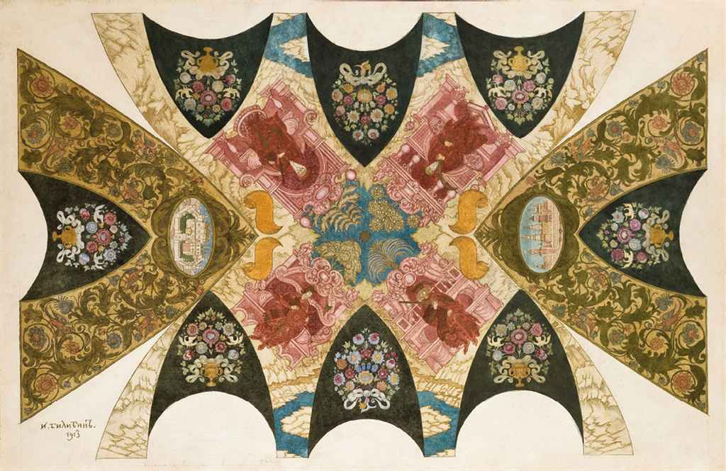 Ivan Bilibin (1876-1942) An original design for a ceiling mural for the State Bank in Nizhny-Novgorod signed in Cyrillic and dated 'I. Bilibin/1913' (lower left) pencil, ink, watercolour and gouache, heightened with gold, on paper 25¾ x 39¼ in. (65.5 x 99.5 cm.)